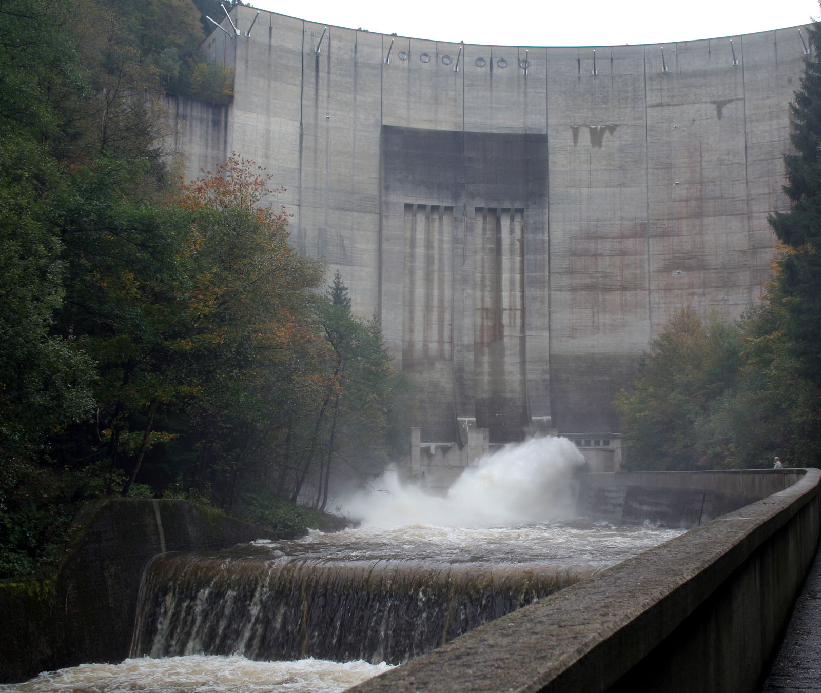 Stillin basin below the retaining wall in the river Oker in the Harz-Mointains at opened scour outlet